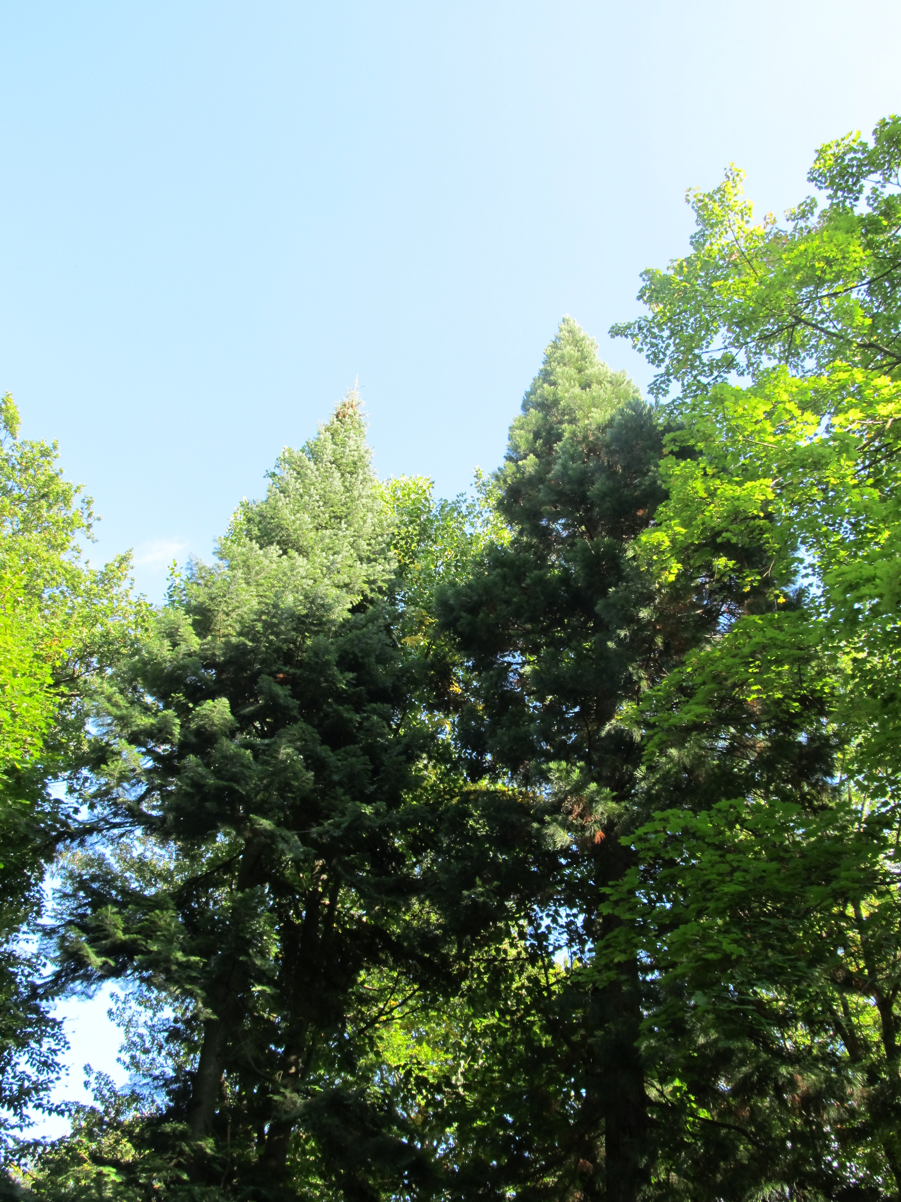 Tops of two Giant sequoia at Goldboden near Manolzweiler (Winterbach)